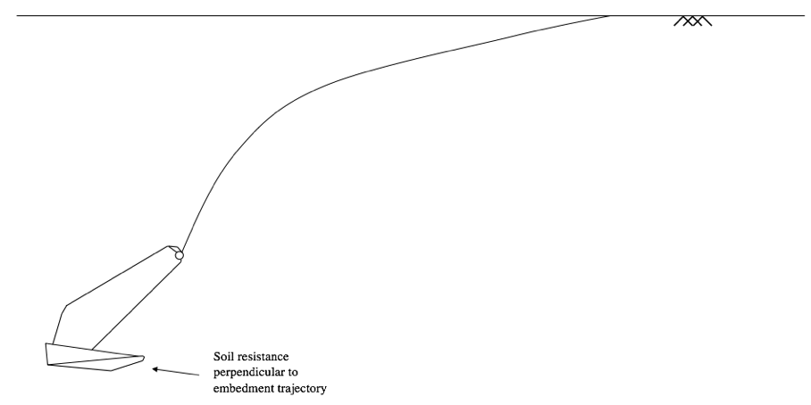 Embedment